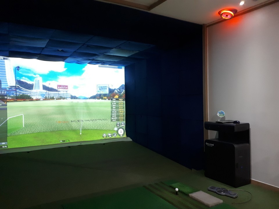 It is a complete view of the screen golf course.